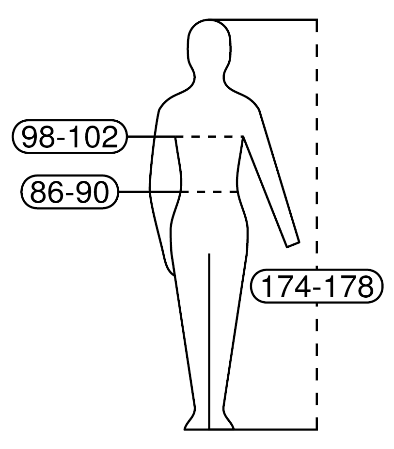 European Standard (EN 13402) pictogram example for some cloting type (jacket?) with primary and secondary measurements. Example: - Bust (98-102 cm), - Waist (86-90 cm) and - Height (174-178 cm)